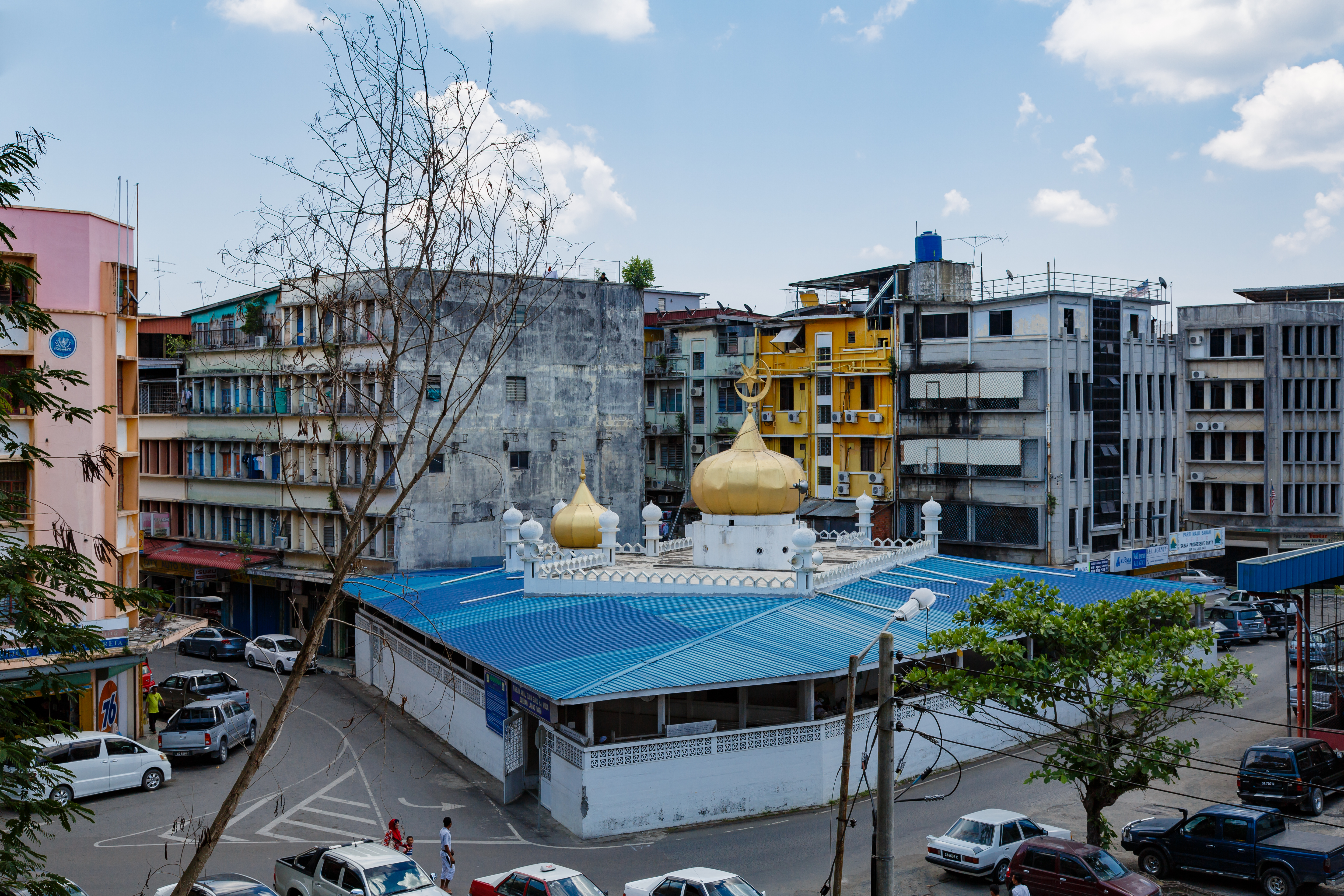 Lahad Datu, Sabah: "Masjid Awam Tuan Guru Hj Muda", a public mosque in Lahad Datu